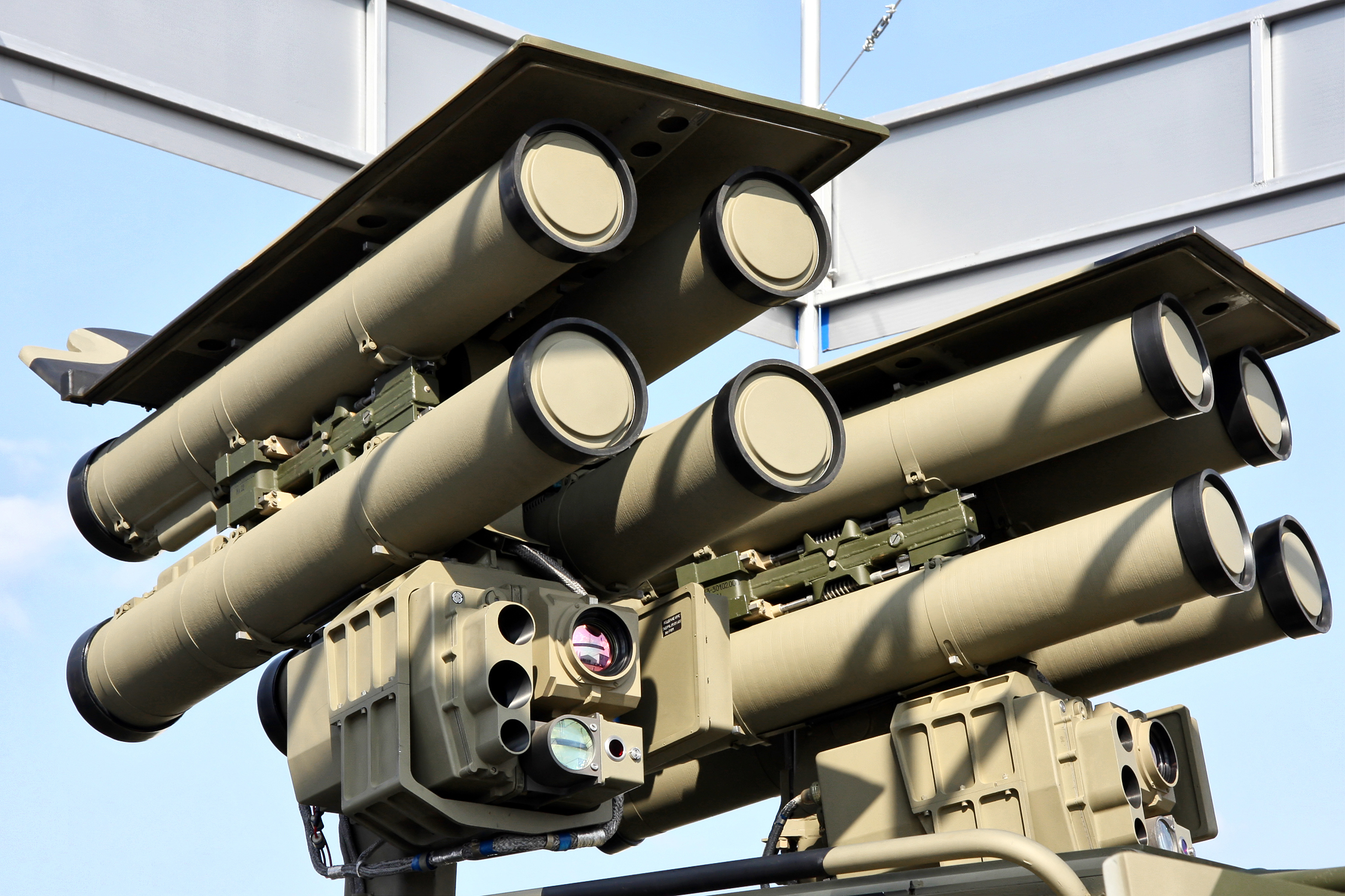 Kornet-EM at MAKS-2011